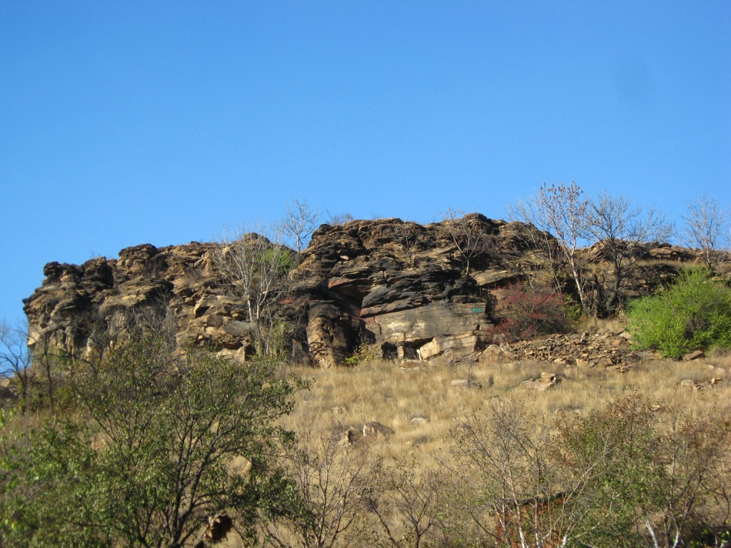 Maryin cliff in Bryanka, Ukraine